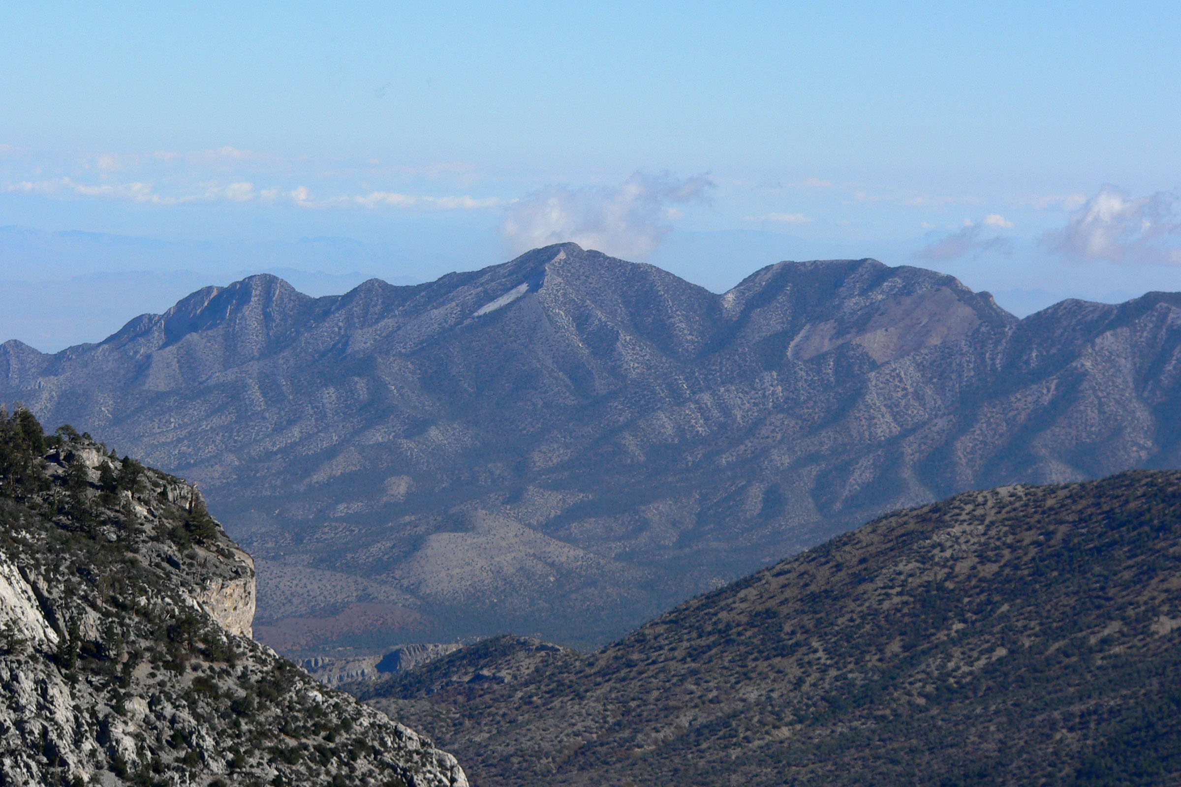 La Madre Mountain seen from the top of Trail Canyon, Spring Mountains, southern Nevada